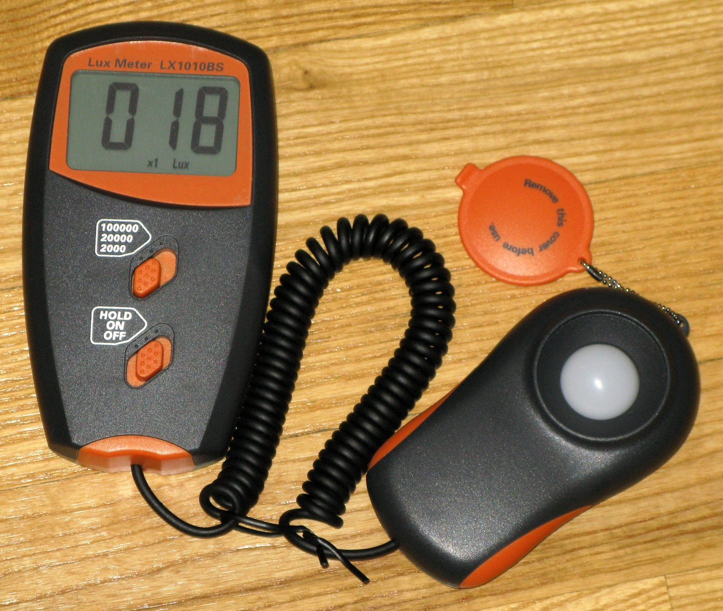 ELV LM 1302 (Lux Meter LX1010BS). Economy lux meter/light meter. The displayed value was the ambient lighting in the room (it's not fast enough reacting to the flash).